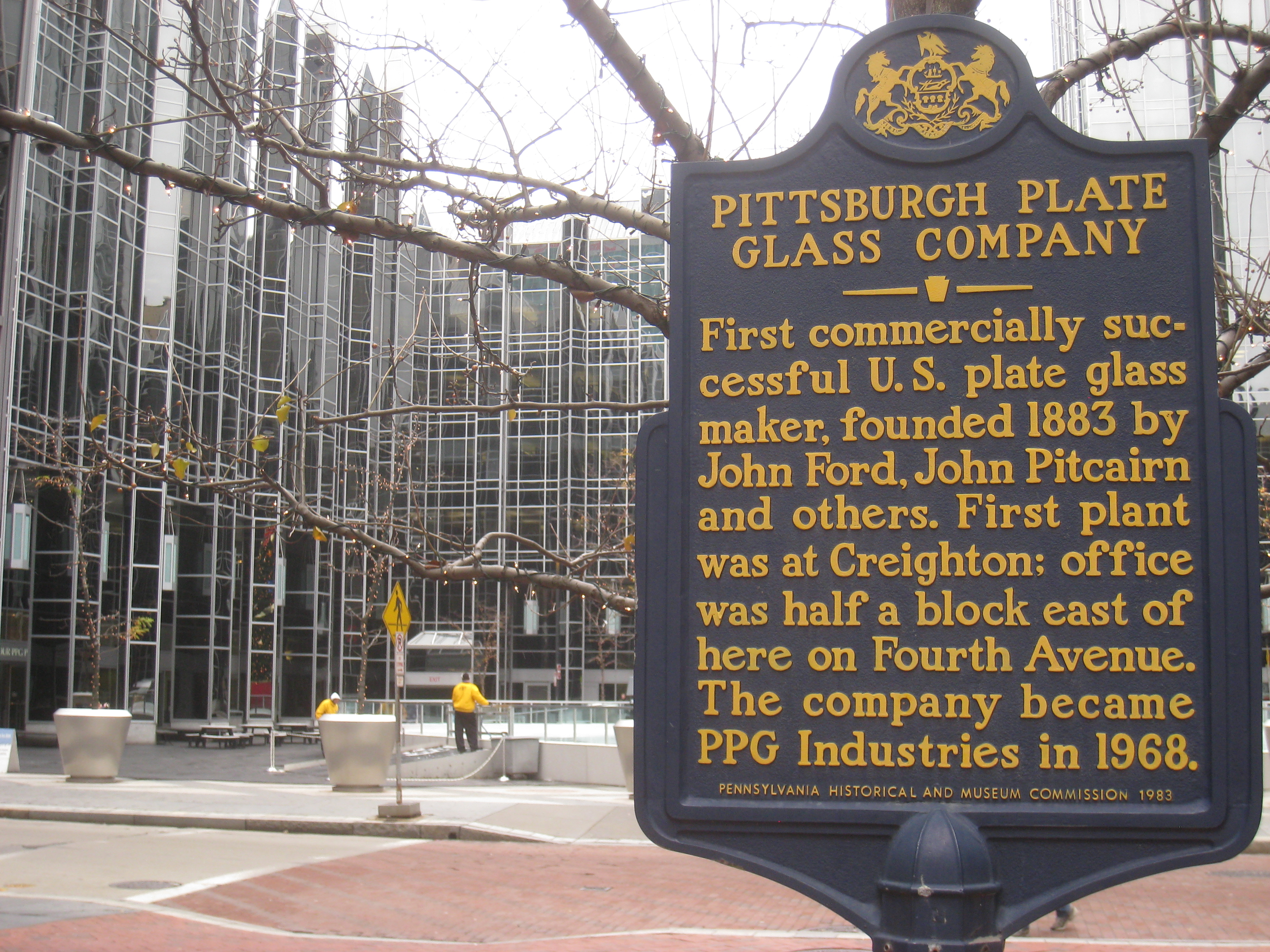 Historical plaque in Pittsburgh, Pennsylvania, USA.